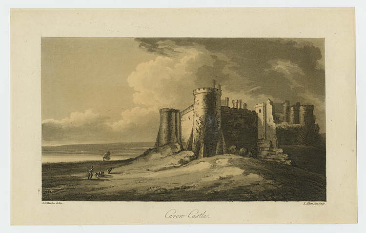 Engraving of Carew Castle in Wales. From A Tour throughout South Wales and Monmouthshire (1803), by John Thomas Barber.